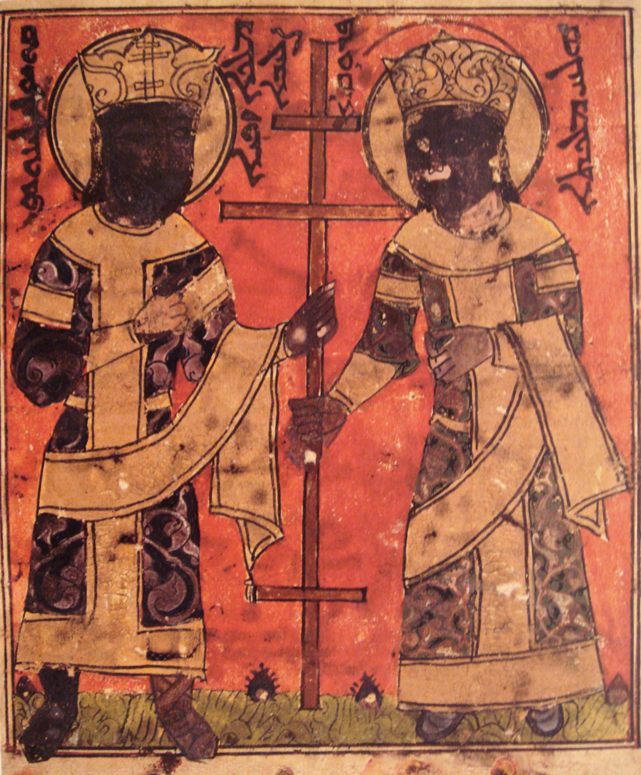 Hulagu Khan and his Christian wife Doquz Khatun depicted as the new “Constantine and Helen” in a Syrian Bible.